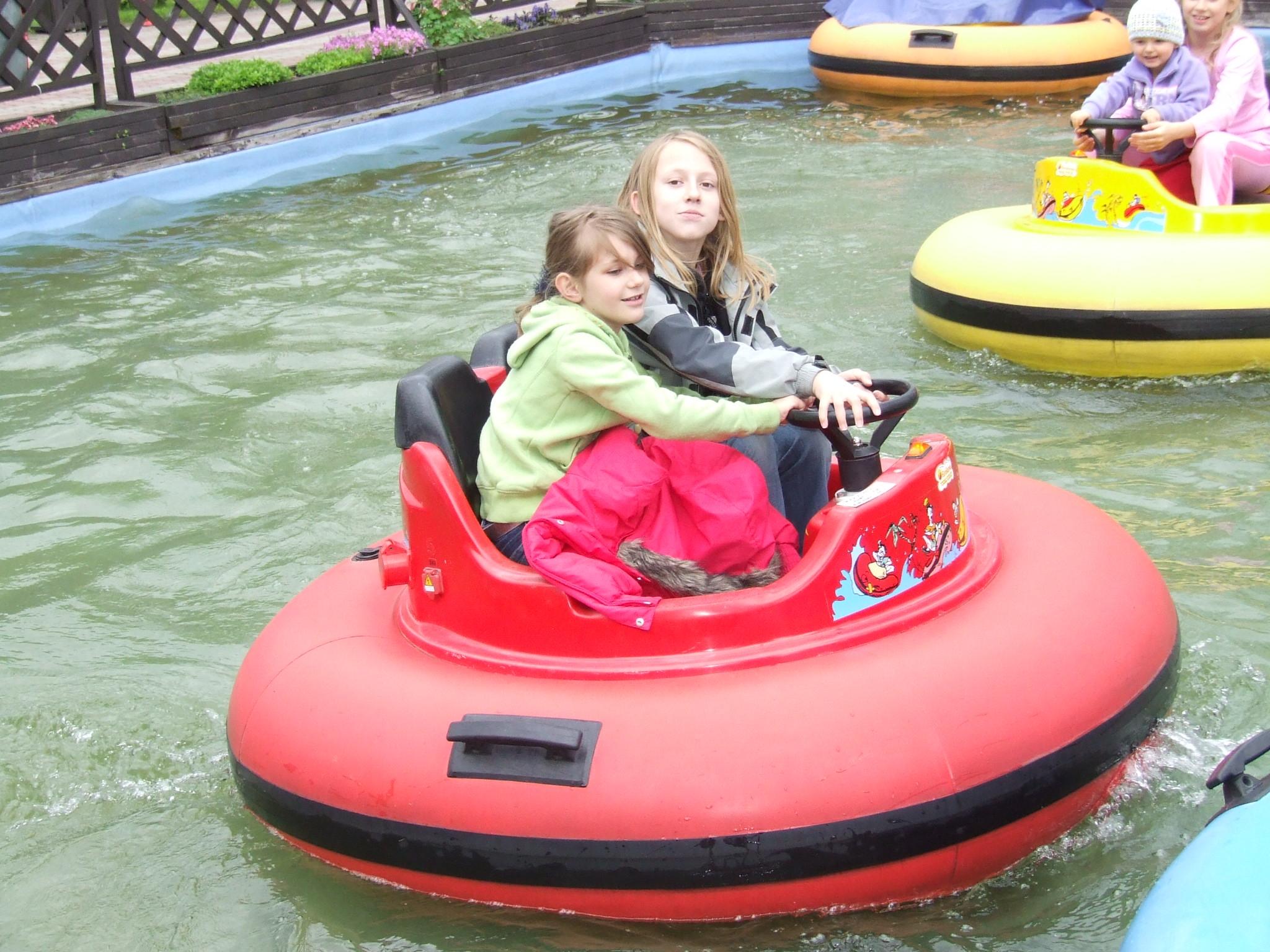 Rabkoland